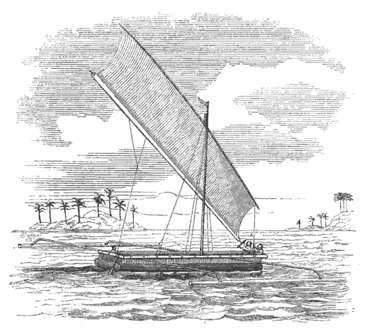 Illustration of a Malay "Jellores" boat with a Tanja (tilted square) sail (1863)